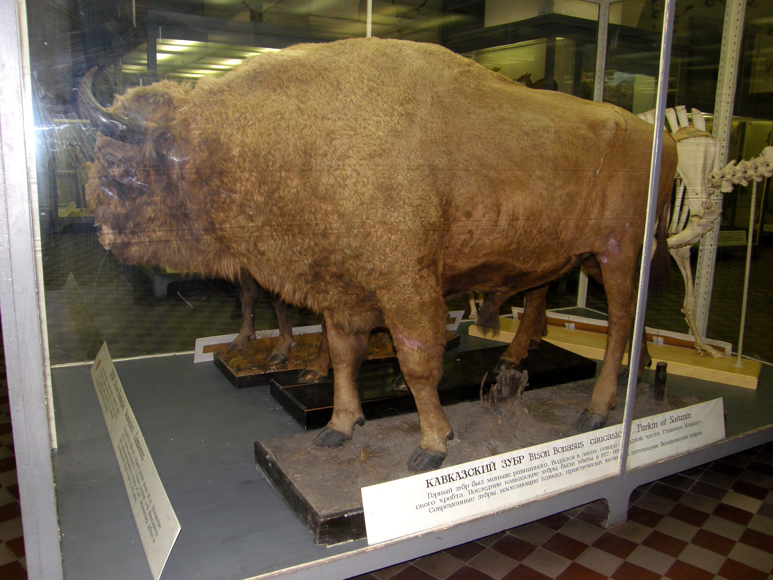 Bison bonasus caucasicus in Zoological Museum of the Zoological Institute of the Russian Academy of Sciences.